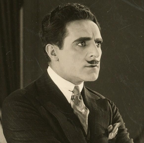 Jean De Briac in The Frisky Mrs. Johnson - publicity still (original image damaged, cropped and modified : see source)